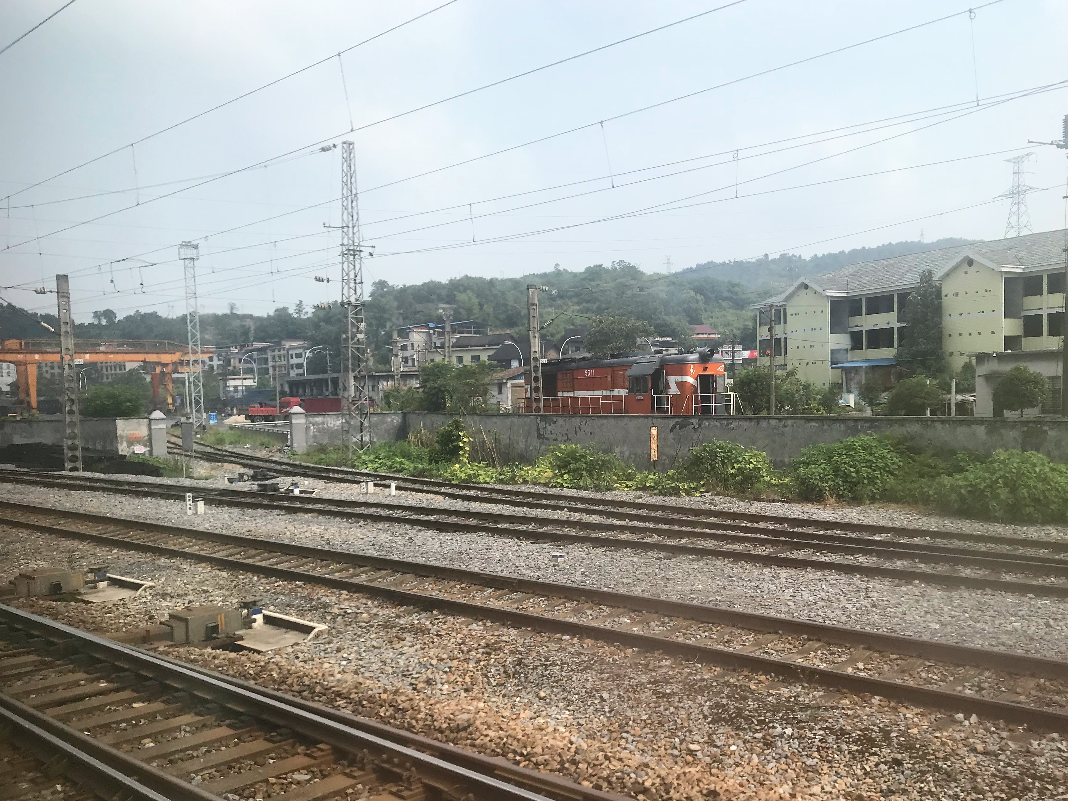 201908 DF7C-5311 at Lengshuijiangdong Station Freight Yard